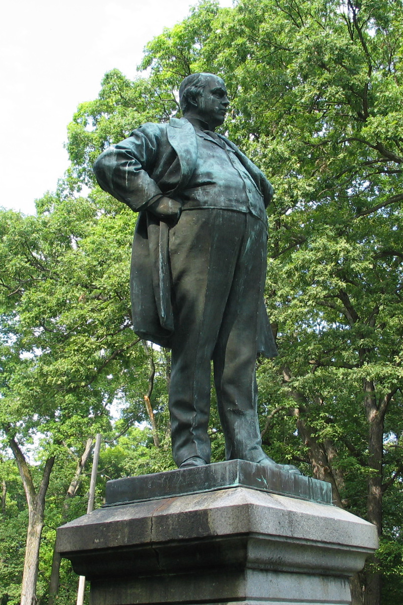 "Statue of Robert G. Ingersoll in Peoria, IL" — statue of Robert G. Ingersoll at the bottom of Glen Oak Park, Abington Street and Perry Avenue, Peoria, Illinois. Photograph by John Dodd, July 2003.